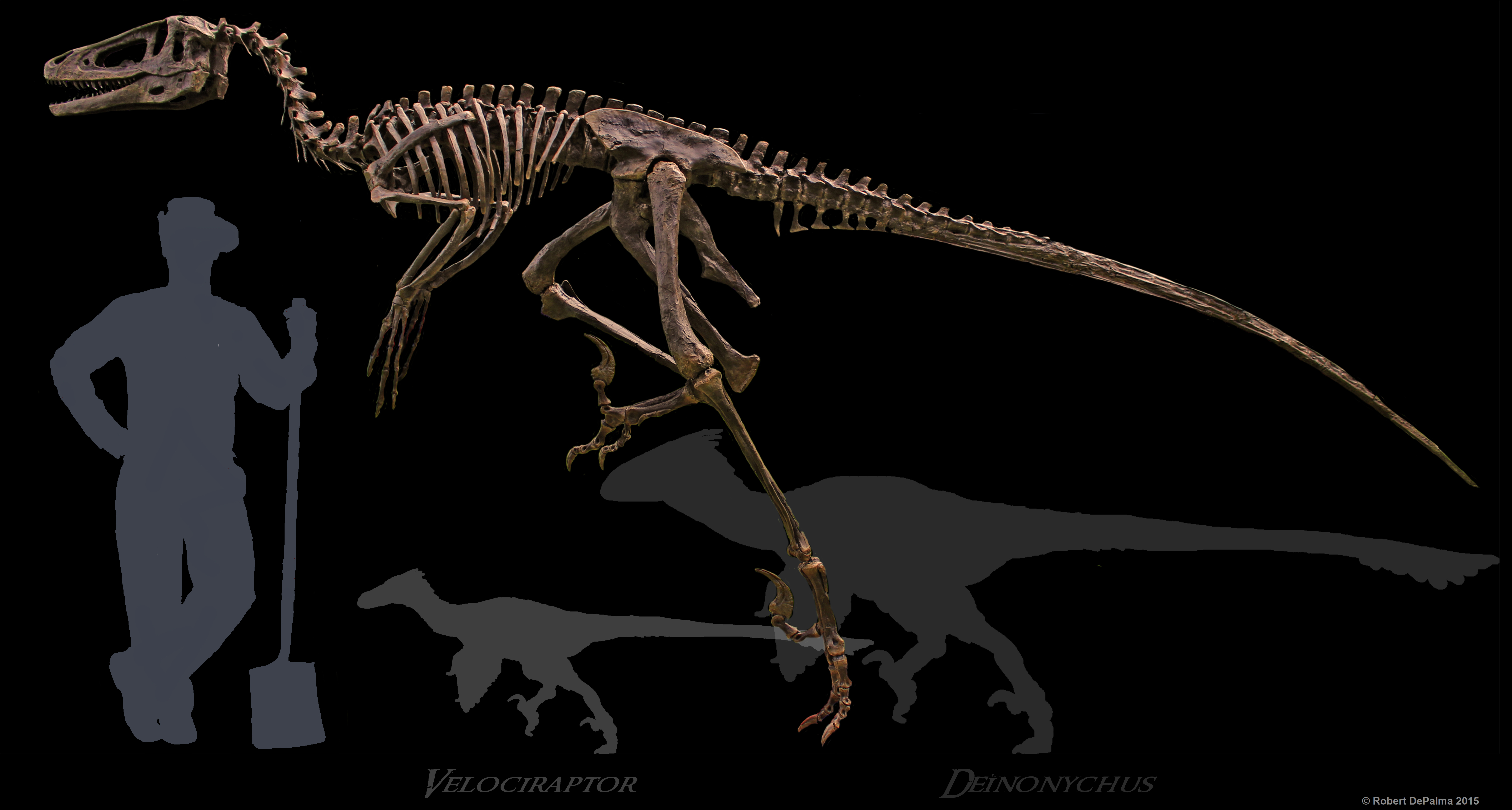 A restored replica of the Dakotaraptor holotype skeleton compared to silhouettes of Deinonychus and Velociraptor, showing the difference in body size